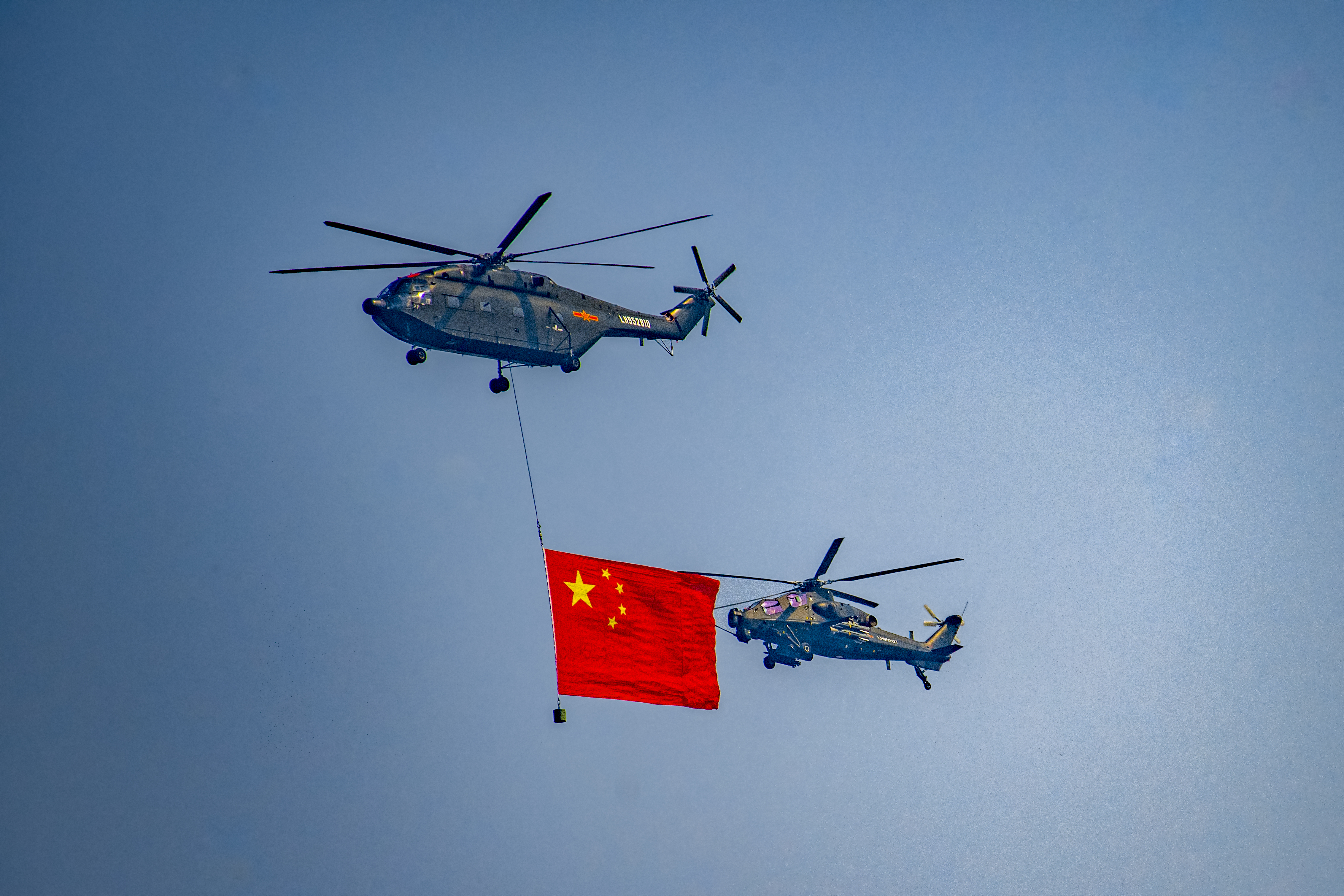 The second.